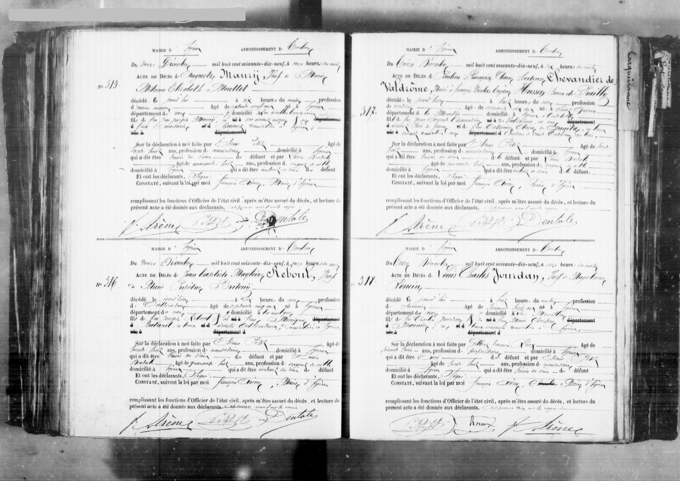 Acte d'état civil